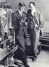 Irving Langmuir and Willis Rodney Whitney.